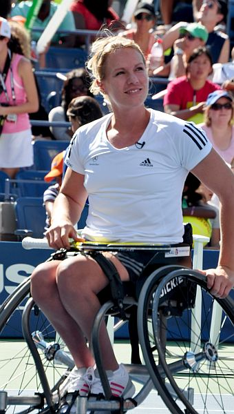 Esther Vergeer at the 15th Arthur Ashe Kids day at the 2010 US Open